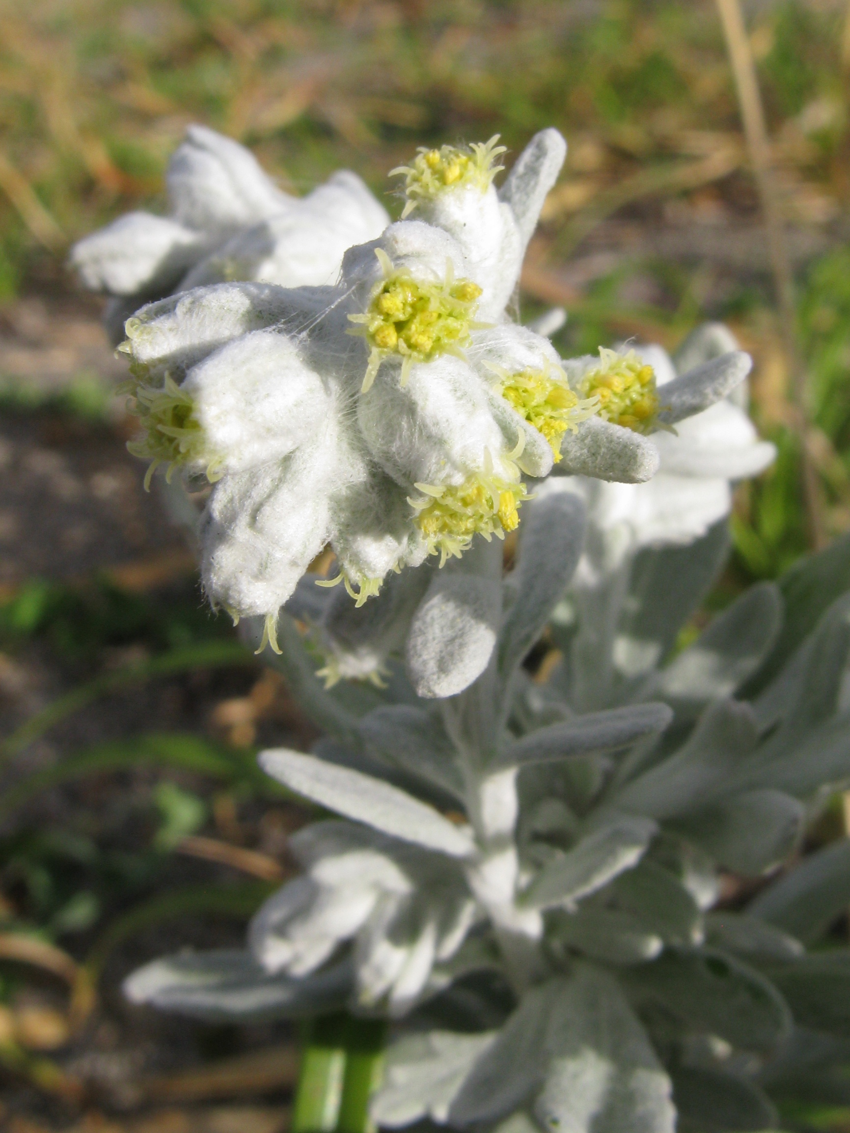 Artemisia stelleriana, Syonai area, Yamagata pref., Japan